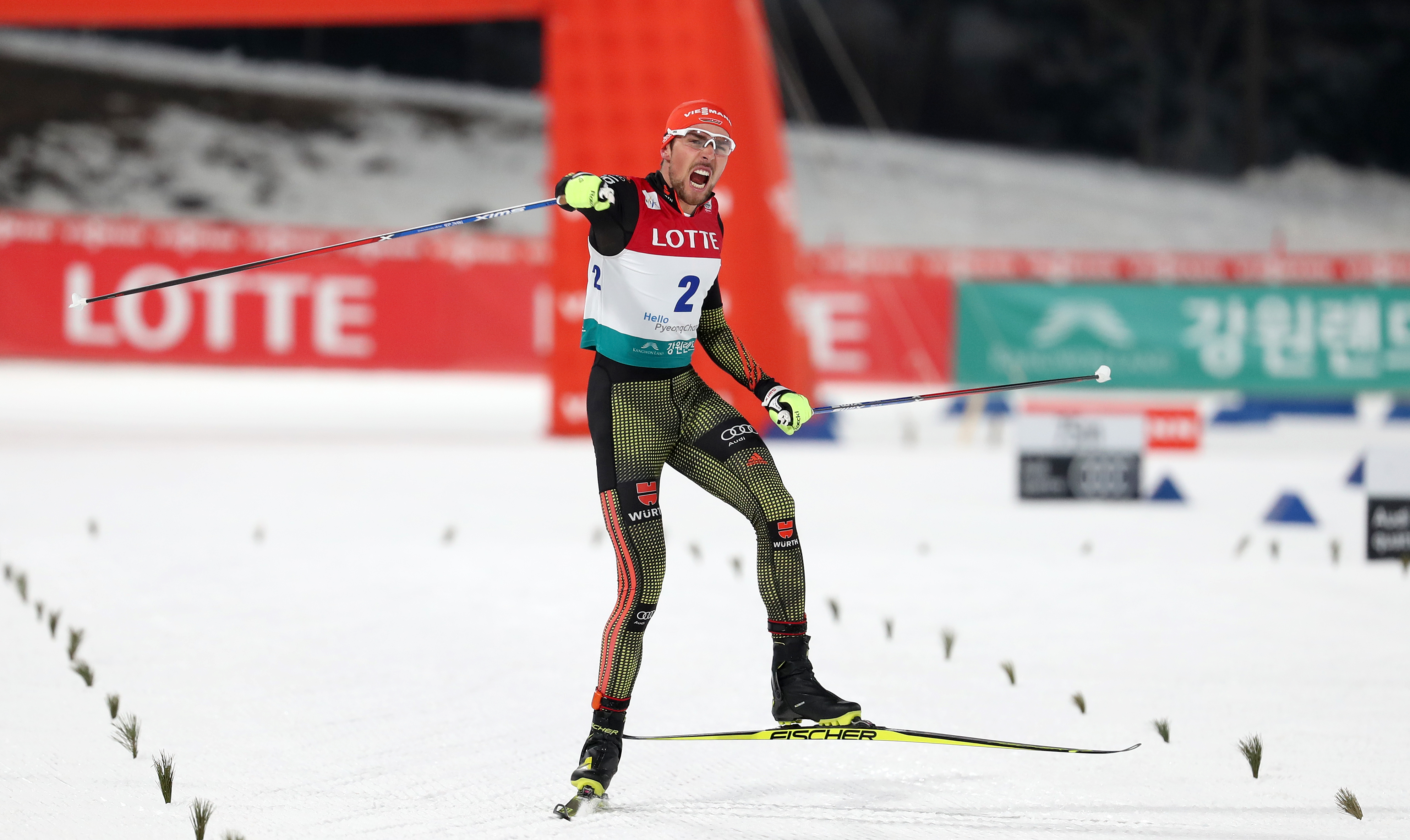 FIS Nordic Combined World Cup February 4, 2017 Alpensia Cross-Country Center, Pyeongchang-gun, Gangwon-do Ministry of Culture, Sports and Tourism Korean Culture and Information Service ( Official Photographer : Jeon Han This official Republic of Korea photograph is being made available only for publication by news organizations and/or for personal printing by the subject(s) of the photograph. The photograph may not be manipulated in any way. Also, it may not be used in any type of commercial, advertisement, product or promotion that in any way suggests approval or endorsement from the government of the Republic of Korea. FIS 노르딕컴바인 월드컵 2017-02-04 알펜시아 크로스컨트리 센터 문화체육관광부 해외문화홍보원 코리아넷 전한